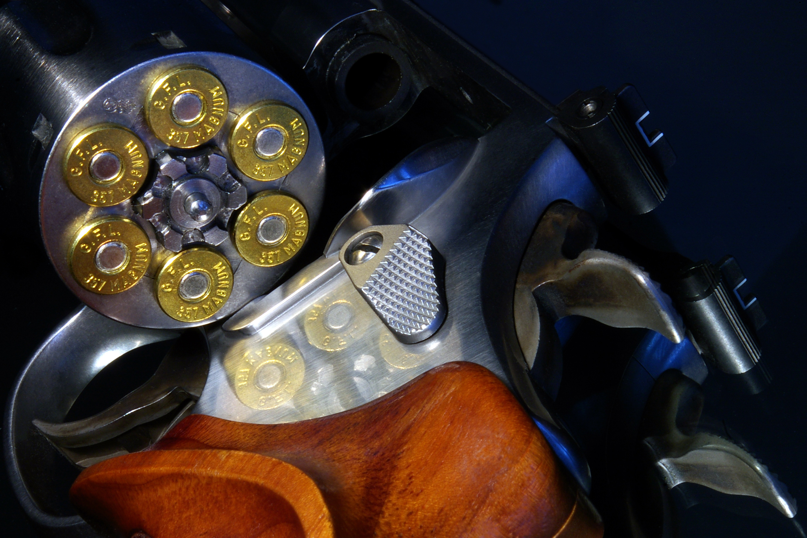 Smith & Wesson 686 Target Champion DL